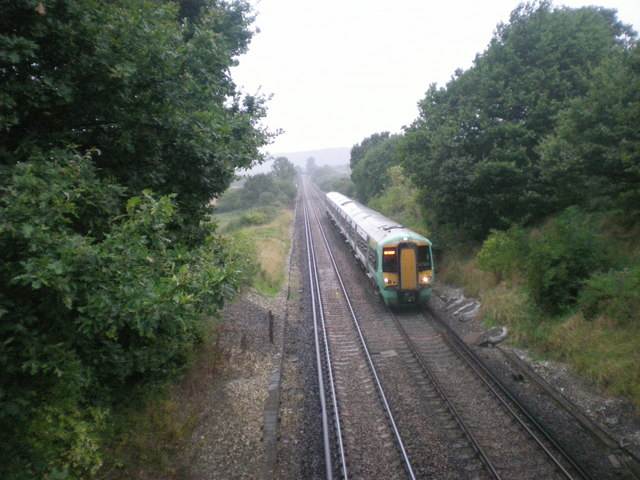 Southern class 377 train near Pulborough, near to Hardham, West Sussex, Great Britain. Southern 377 train bound for Victoria passes under the A29 road bridge south of Pulborough in West Sussex